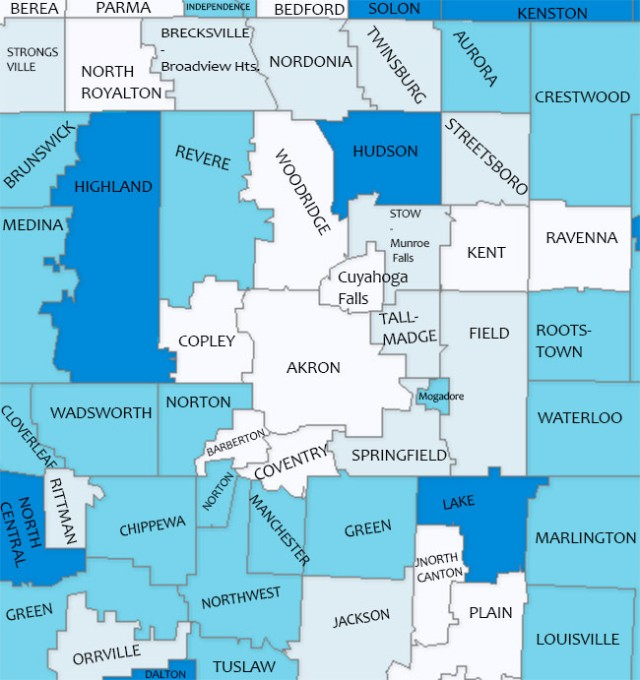 A Map of School Districts in and around Summit County, Ohio in 2012-2013 school year. The image has blue and white school district borders with district names placed in each district area.